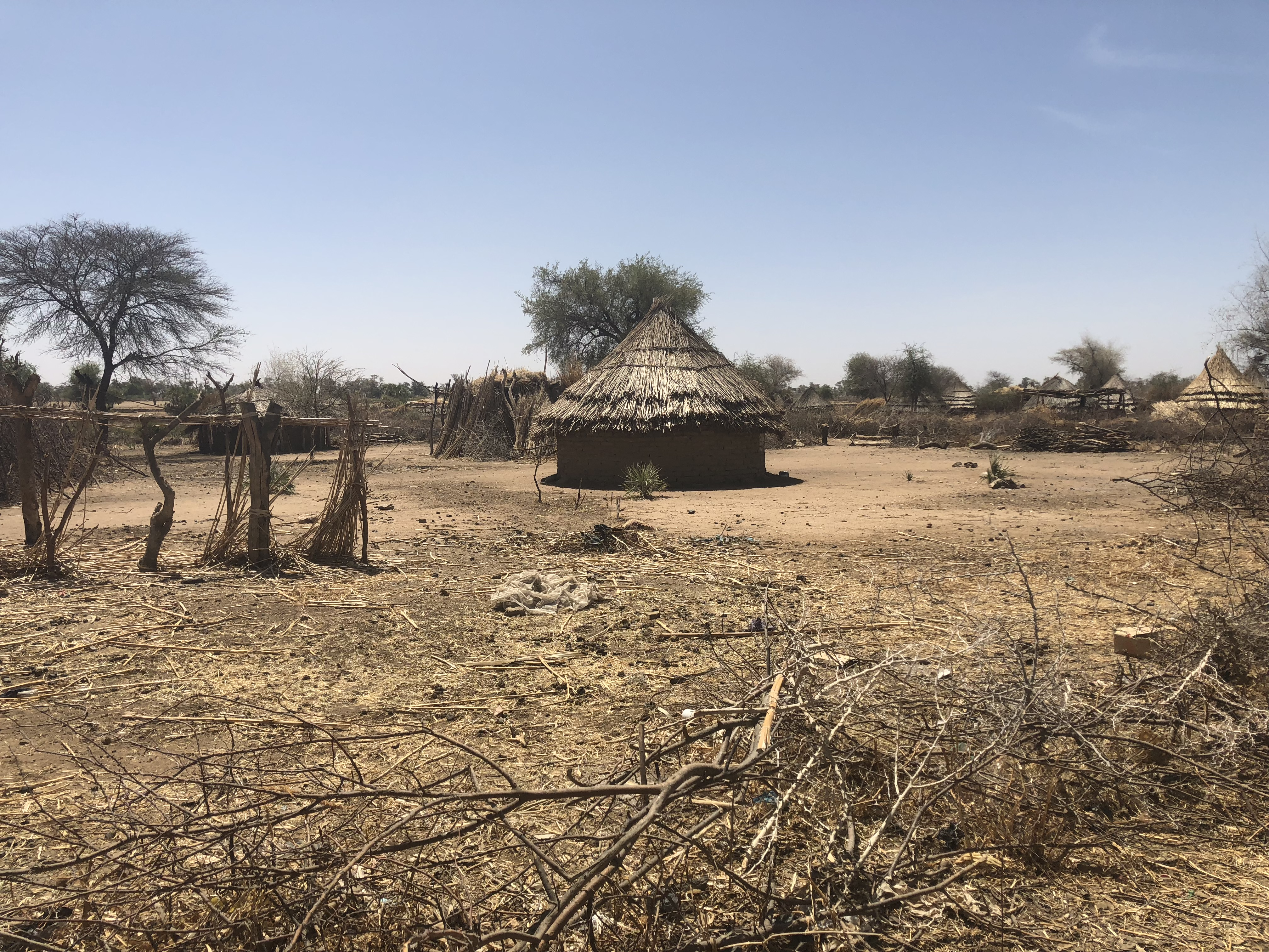 A village in Southern Darfur, Sudan